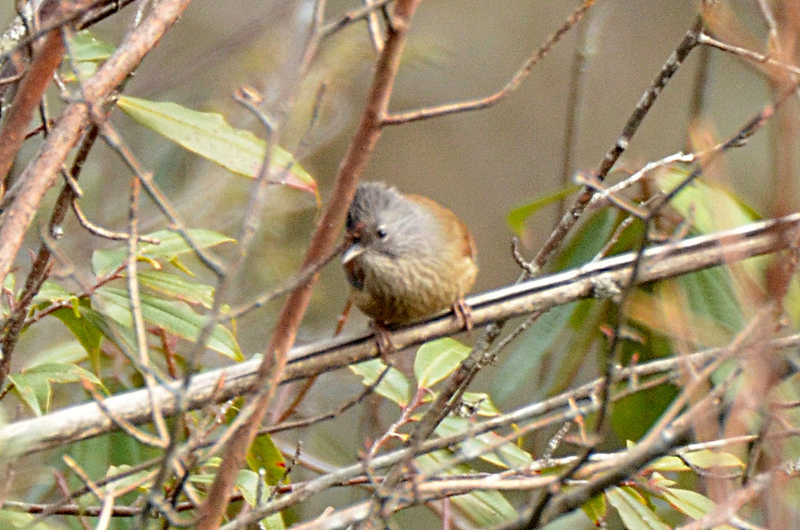 Streak-throated Barwing, Mishmi Hills, Arunachal Pradesh, India